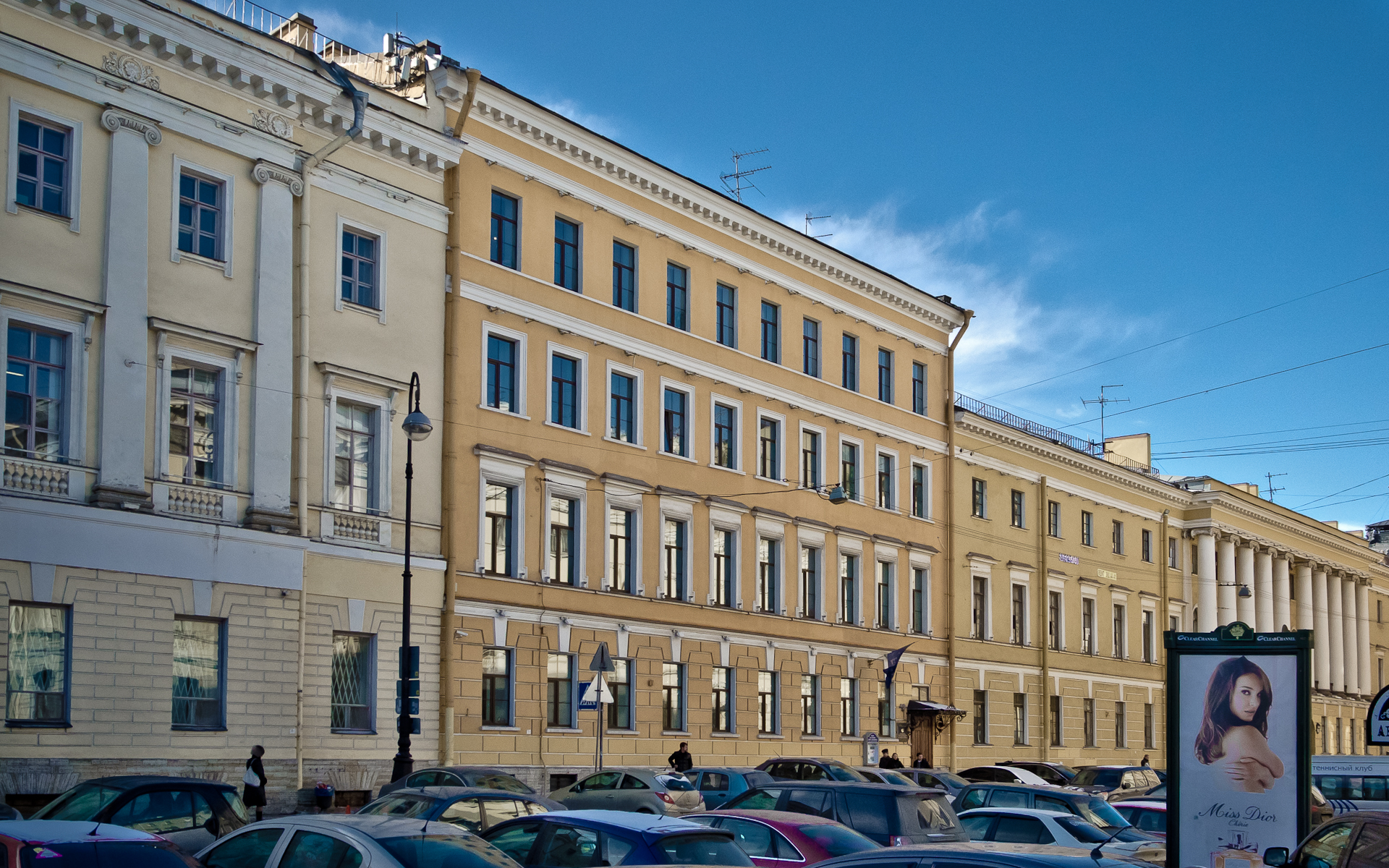 3, Italianskaya Street in Saint Petersburg.